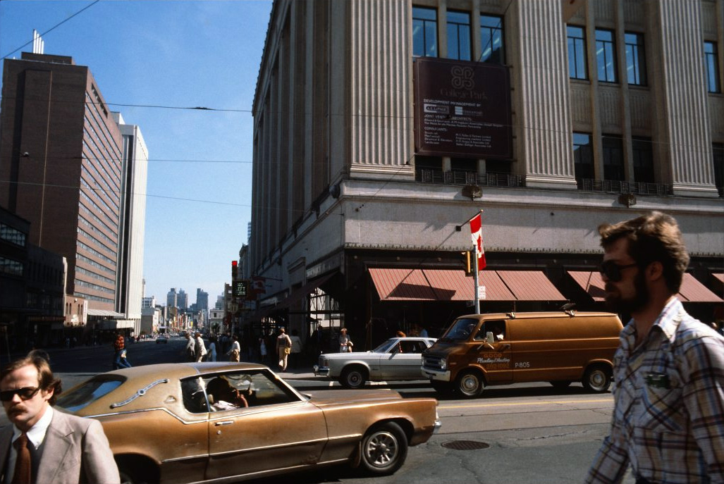 Yonge and College Streets, Toronto, Ontario, Canada.